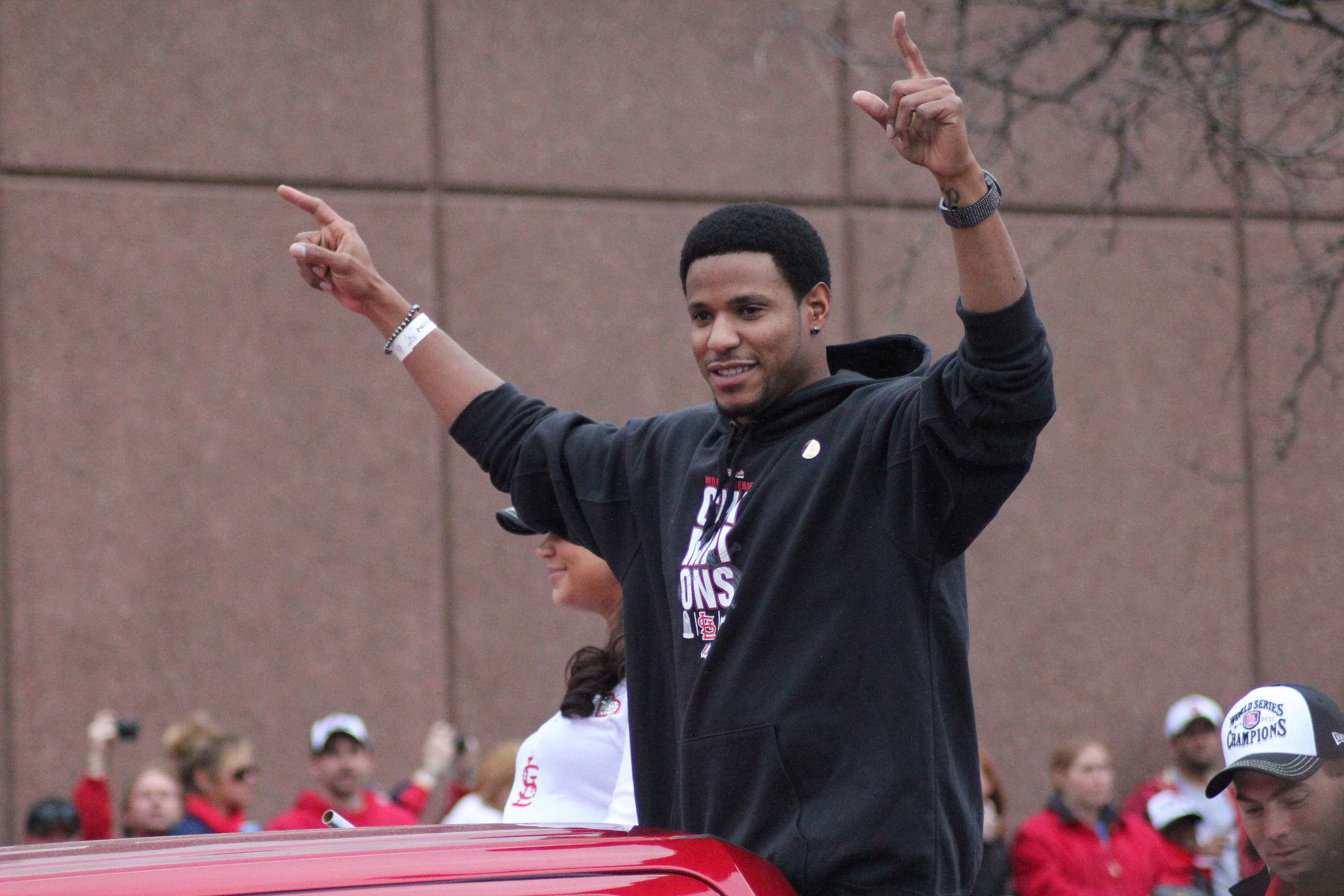 Edwin Jackson during the 2011 World Series victory parade Saint Louis Oct 30,2011.